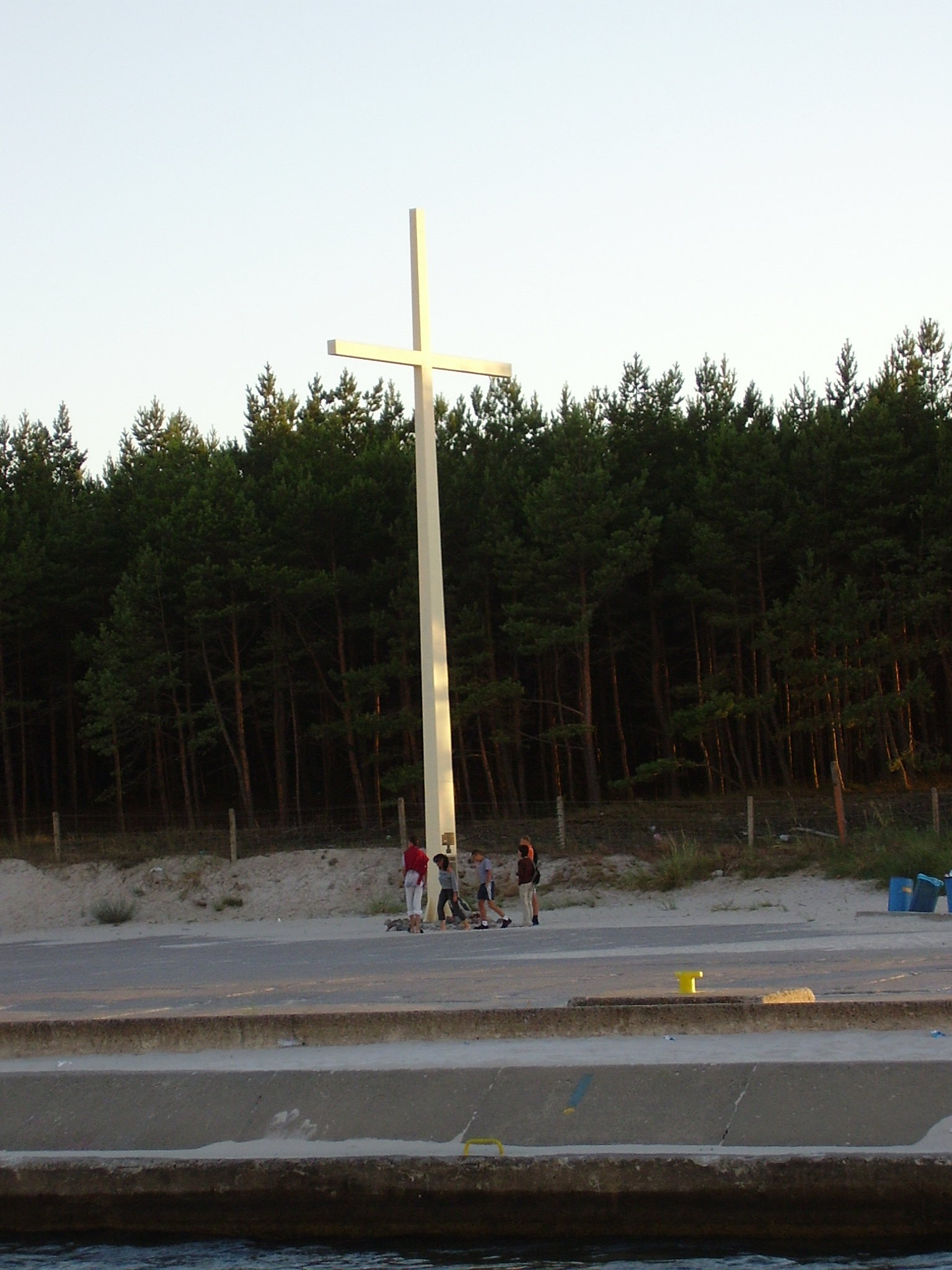 cross at he harbour dedicate for soldiers casulted on defence in Łeba